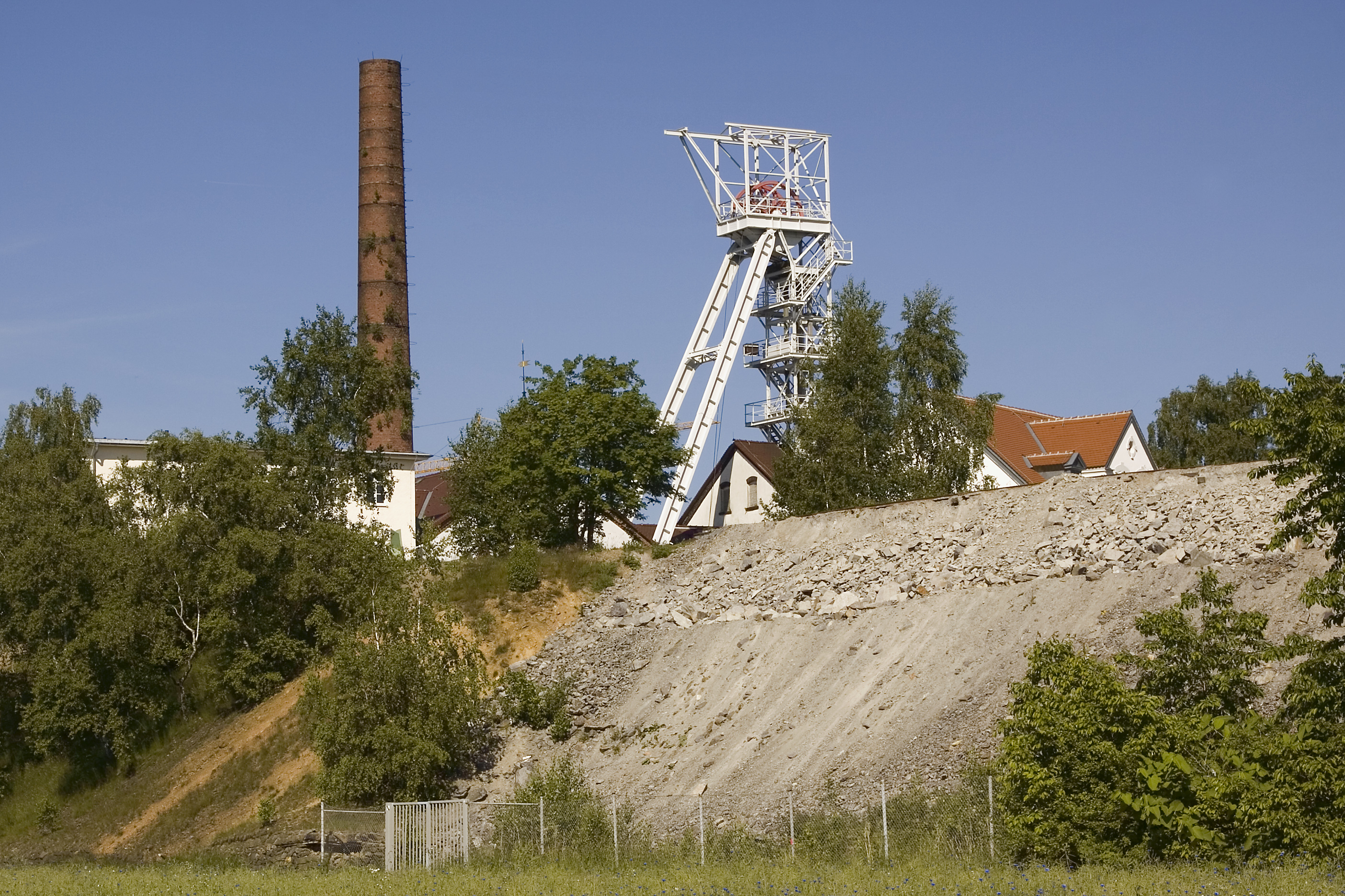 Reiche Zeche: former mine in Freiberg (Saxony)